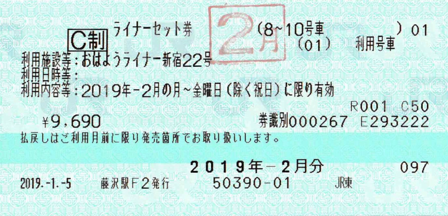 おはようライナー新宿22号ライナーセット券2019年2月分